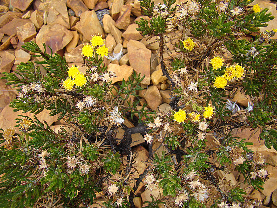 Known as Tola in southern Peru. In context at